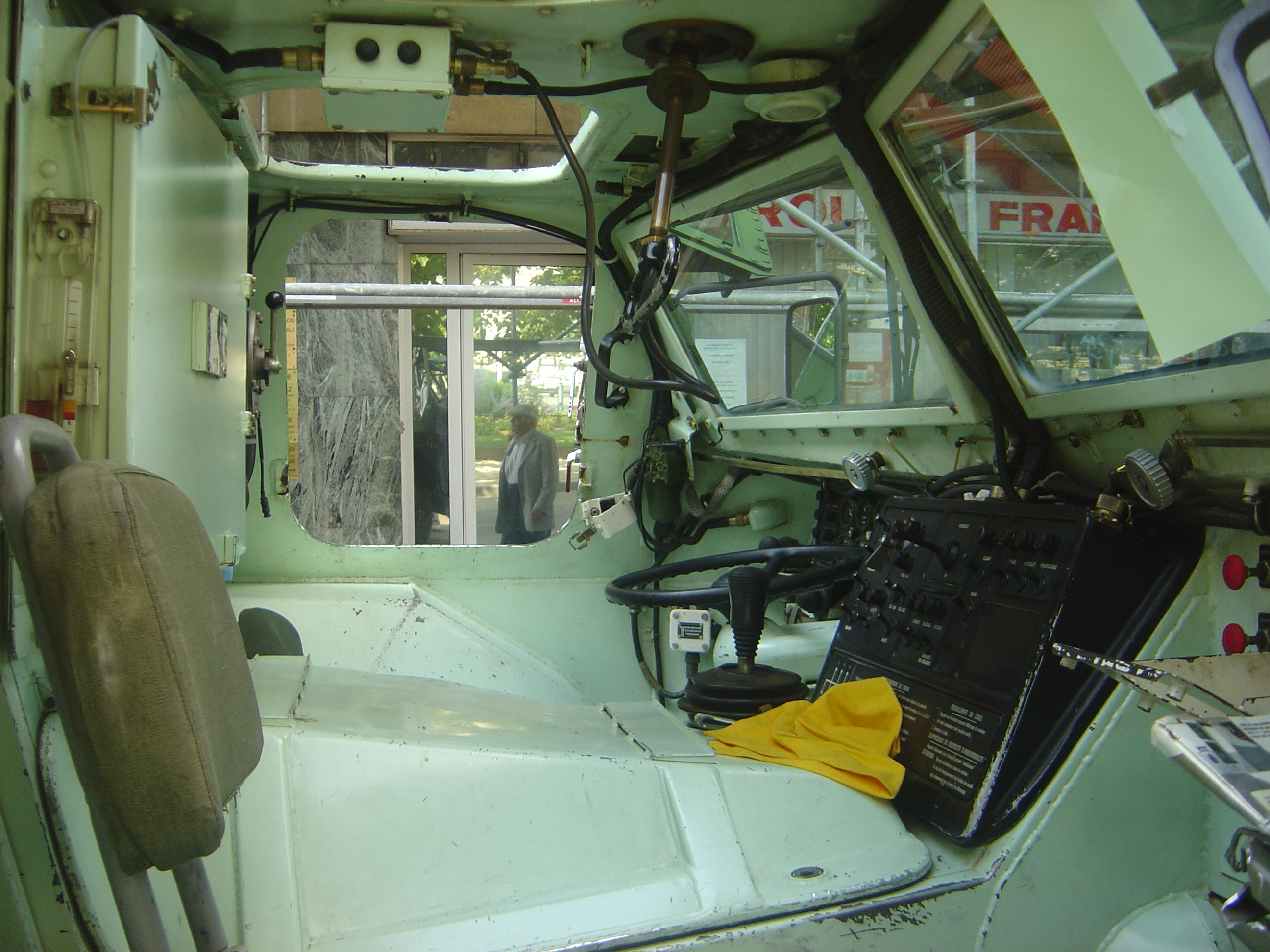 interior of the front of a VAB